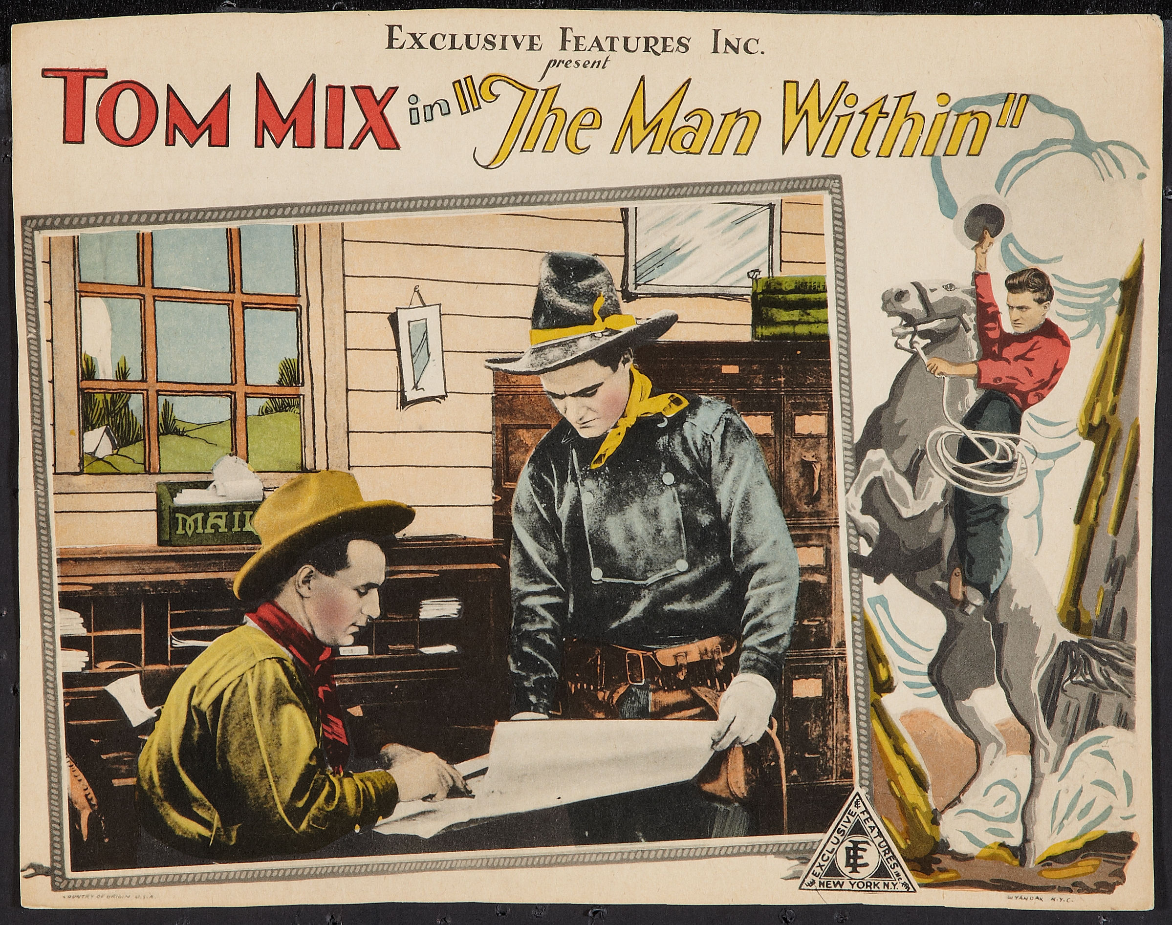 Lobby card for the American western film The Man Within (1916).